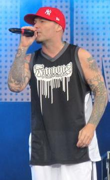 Fred Durst performing with Limp Bizkit at Sonisphere 2011.